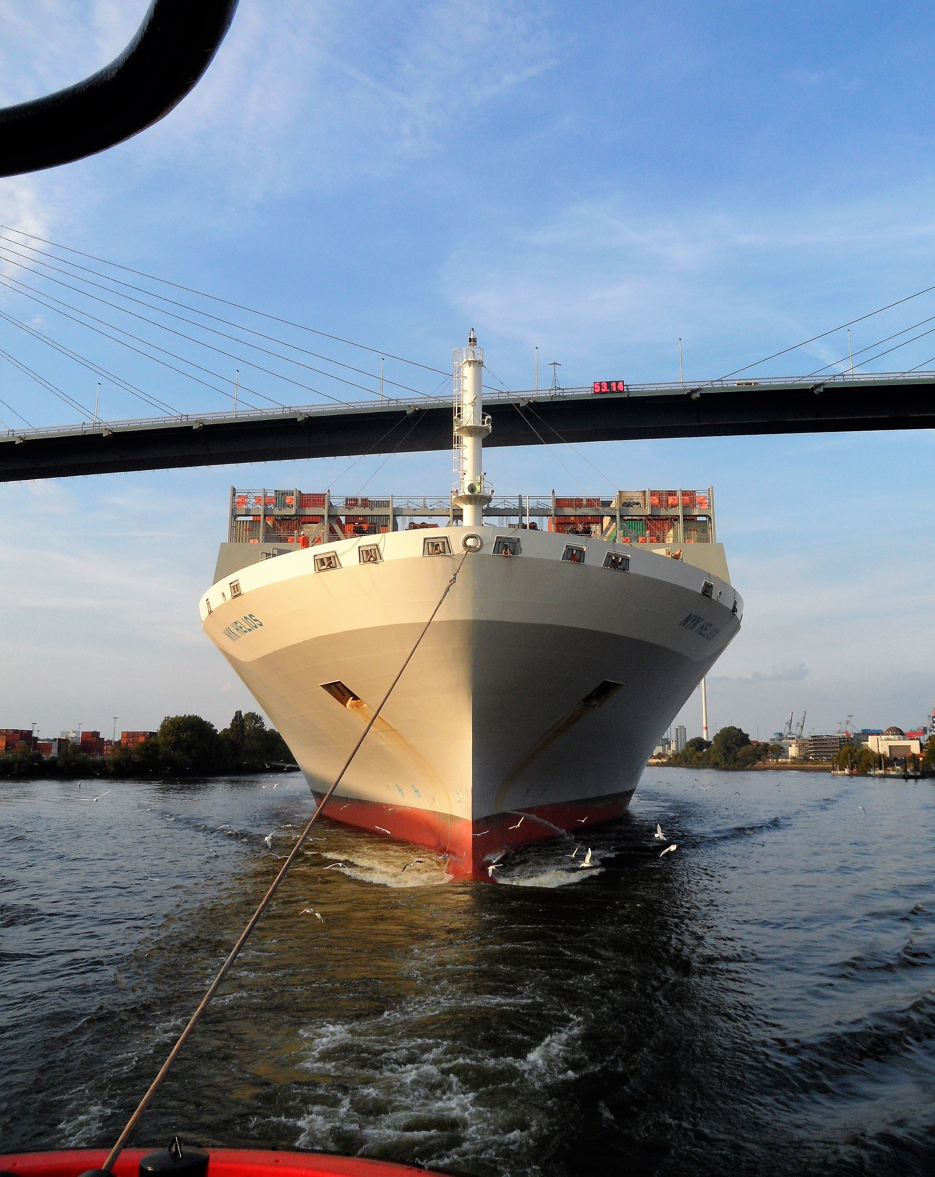 The NYK Helios passes Köhlbrandbrücke on 20.09.2014 at 17.11 clock